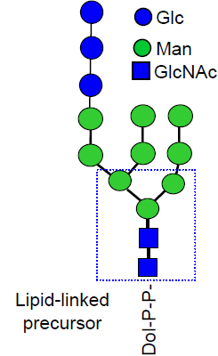 Estructura del core